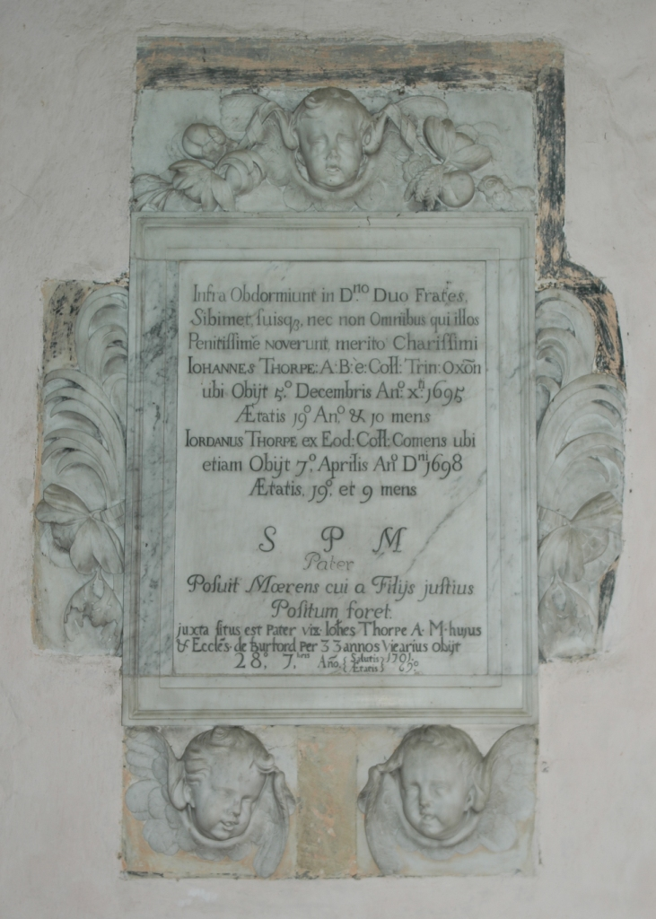 Church of England parish church of St James, Fulbrook, Oxfordshire: monument to John Thorpe (died 1695) and Jordan Thorpe (died 1698)